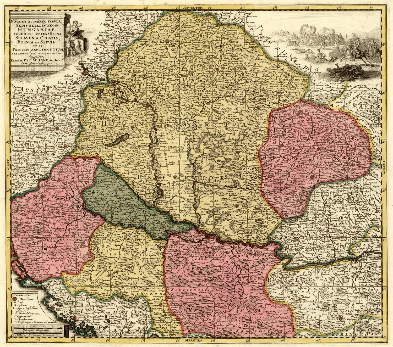 Nova et accurata Tabula sedis belli in Regno Hungariae. Accendunt cetera Regna Sclavonia, Croatia, Bosnia, Servia, Dalmatia, Bulgaria et Romania…